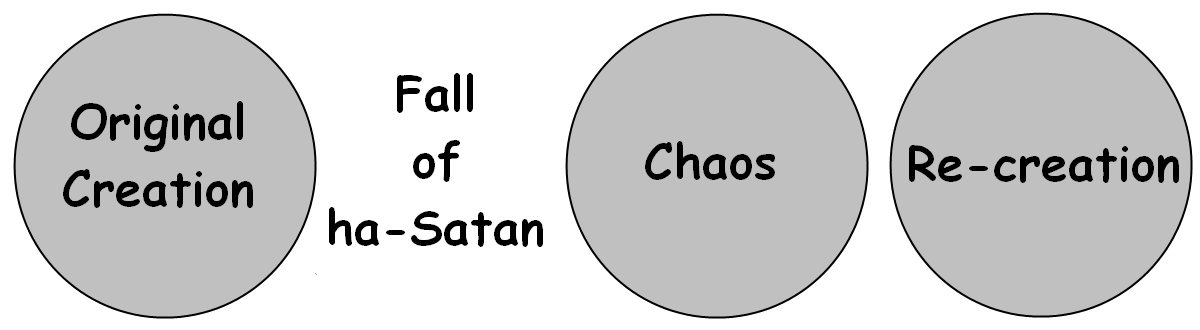 Cosmological argument on ex nihilo—Procreation (Gap) Theory, Abrahamic Philosophy. Created image using ' '.